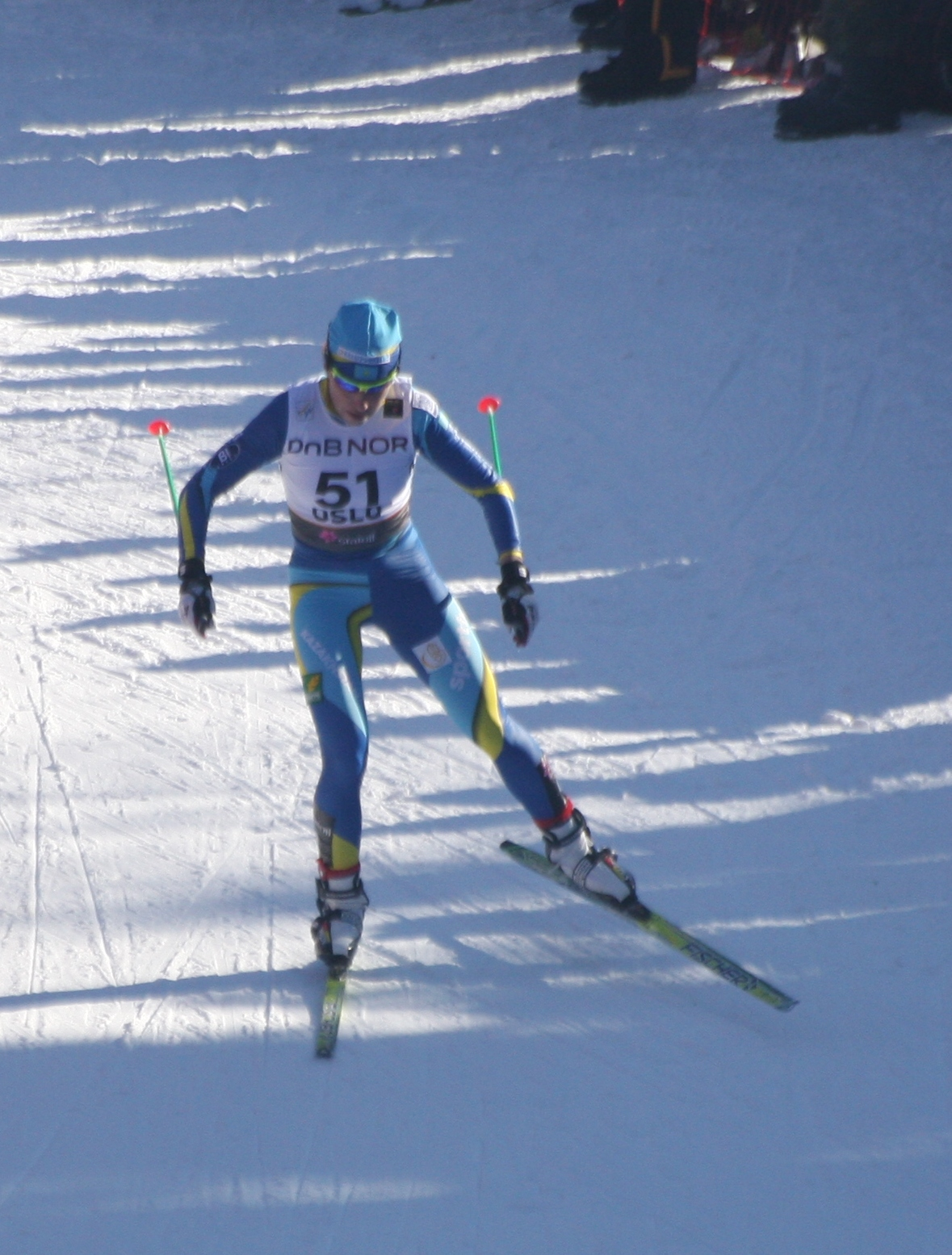 Oxana Jatskaja (Kazakhstan) at 17 km in the women's 30 km, Ski World Championship, Oslo 2011